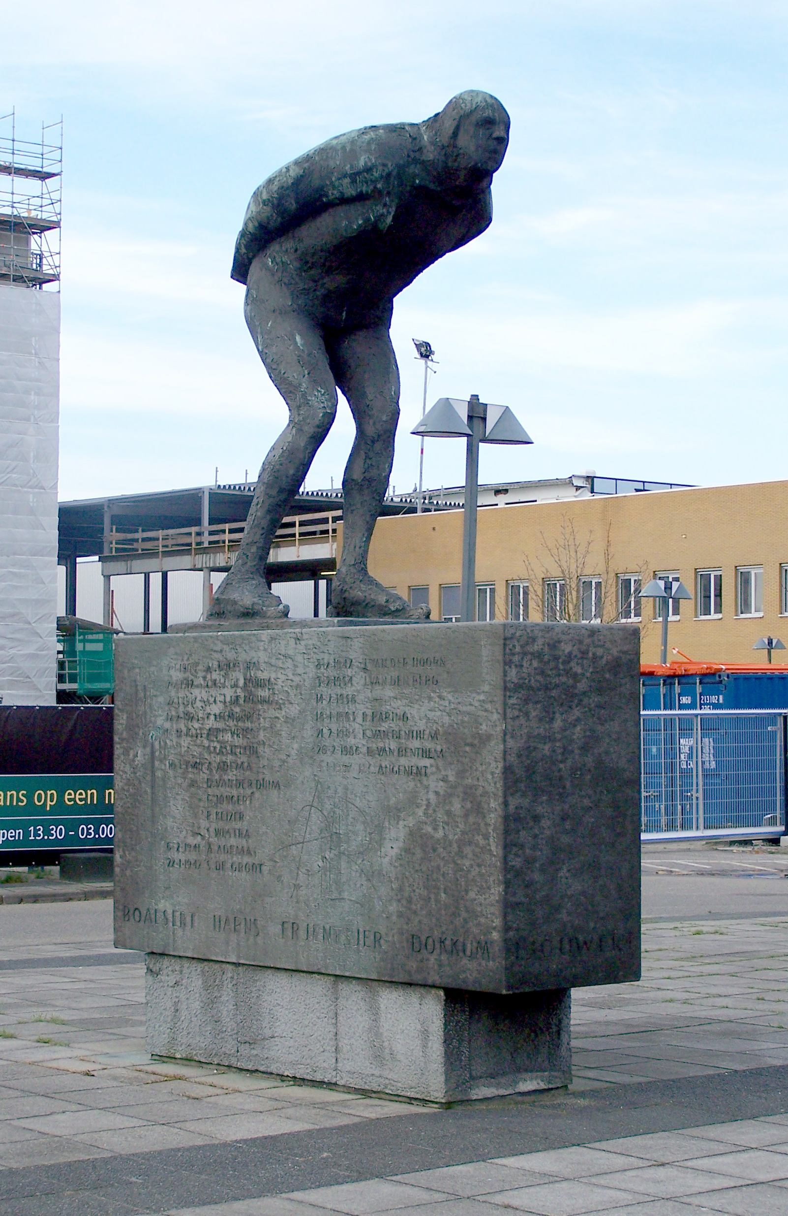 Sculpture of an Elfstedenrijder (skater of the eleven cities tour). Made by Auke Hettema in 1966. Placed in front of the FEC at the Heliconweg in Leeuwarden. All winners and the eleven cities (in Frisian) are carved in the pedestal.